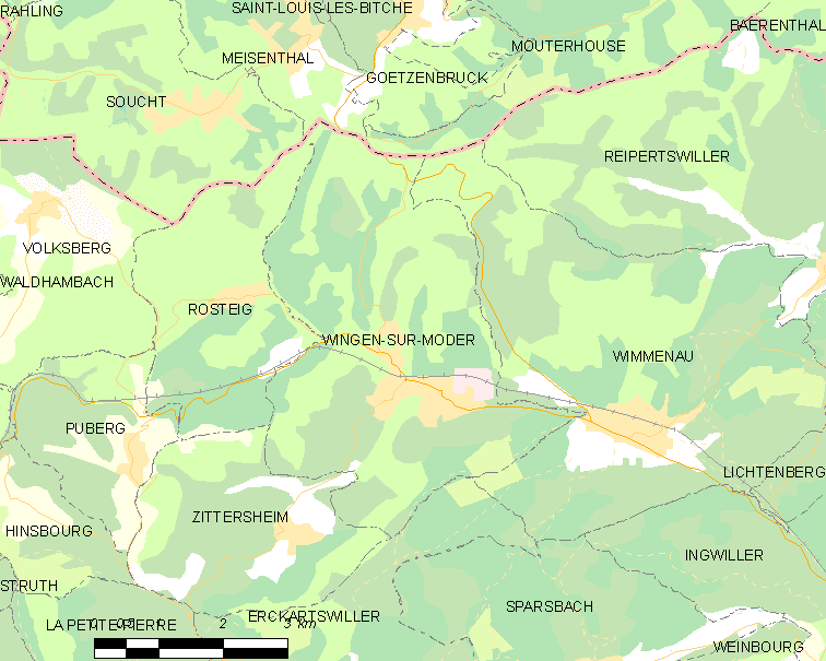 Map of French municipality